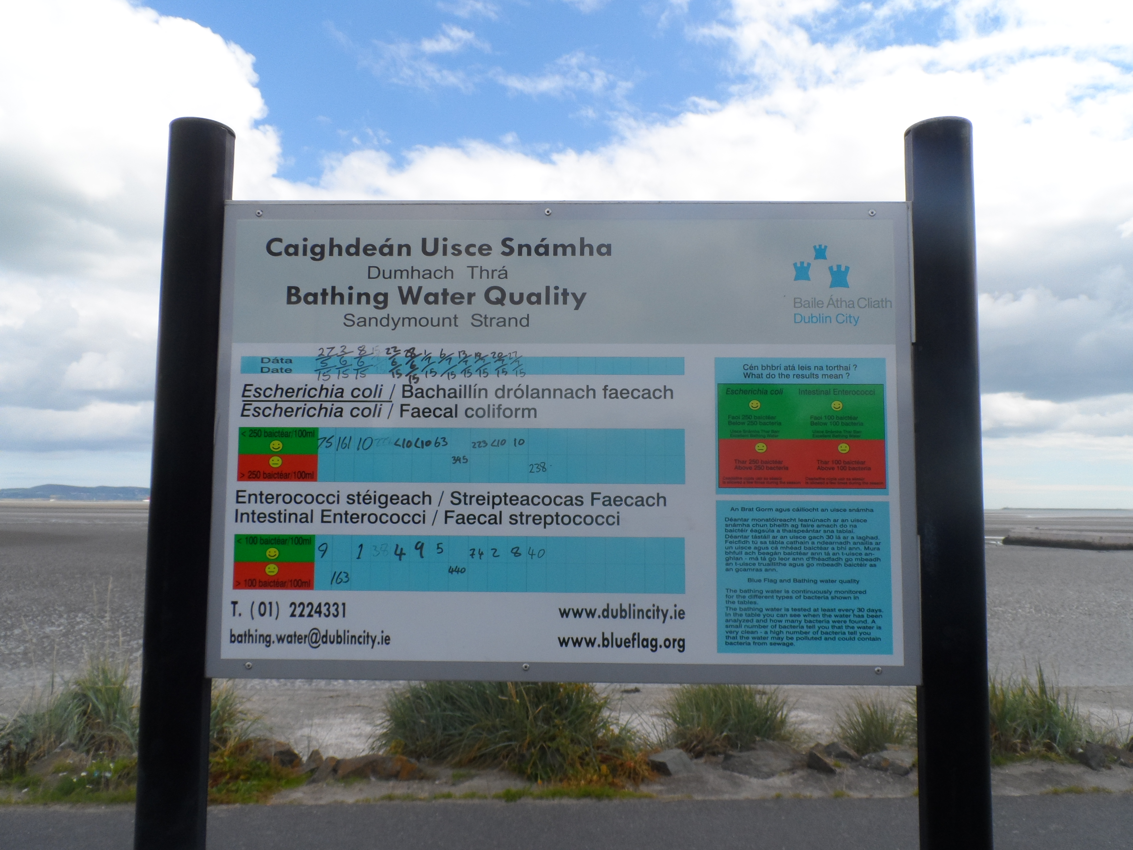 Water cleanliness sign, Dublin